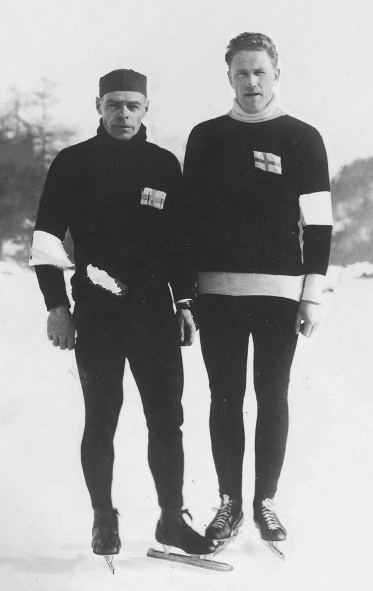 Clas Thunberg (left) and Ossi Blomqvist at the 1931 World Speedskating Championships in Helsinki